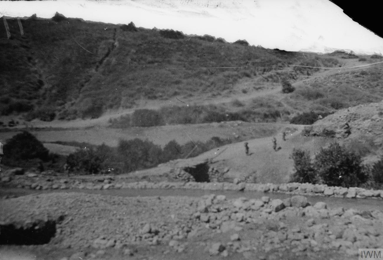 Photo taken on 29 September 1918 at Wadi Ghafur on the Jisr el Majamie to Irbid road Other information Crown copyright access unrestricted